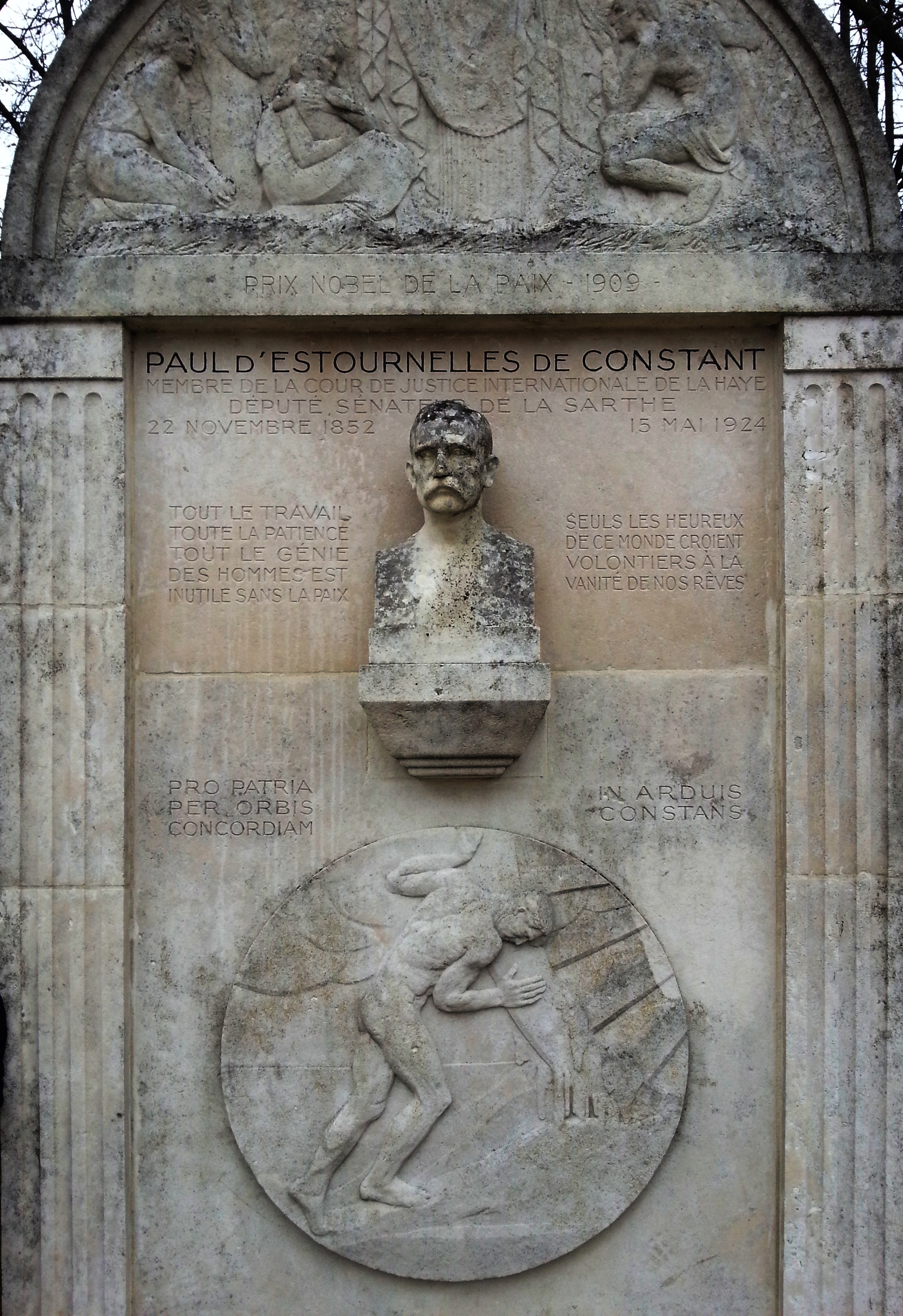 Statue commemorating the 1909 peace Nobel prize Paul d'Estournelles de Constant.